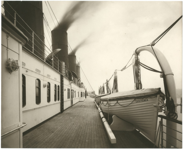 Title: [Boat deck] Creator: Bedford Lemere & Co. Date: ca. 1905-1907 Part Of: Photographs of Q.S.T.S. "Lusitania" Physical Description: 1 photographic print: gelatin silver; 24 x 30 cm. File: ag1982_0183_055_sm_opt.jpg Rights: Please cite DeGolyer Library, Southern Methodist University when using this file. A high-resolution version of this file may be obtained for a fee. For details see the web page. For other information, . For more information, View the